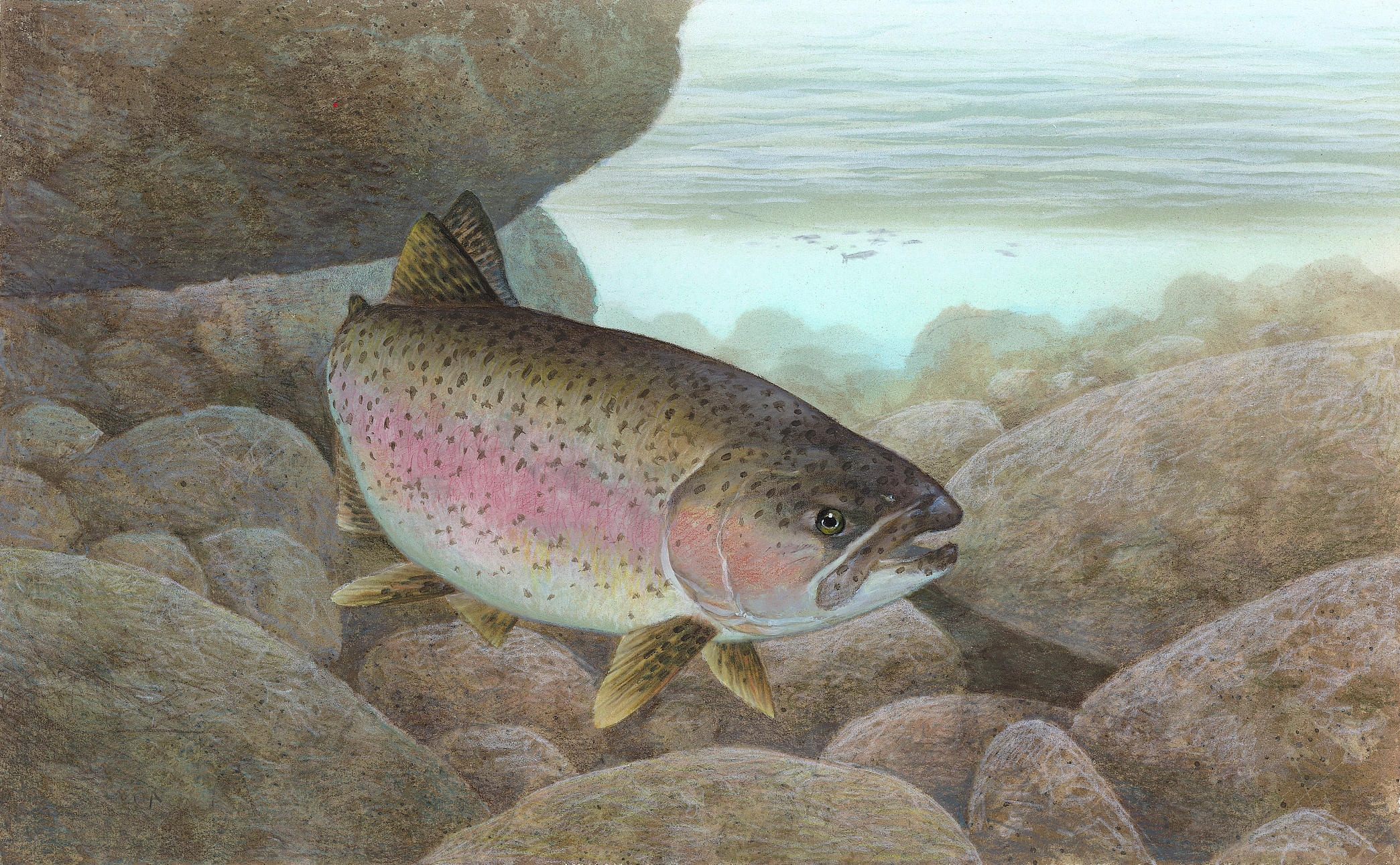 Rainbow Trout (Oncorhynchus mykiss) Source: WO-ART-53-CDKnepp1 Downloaded from